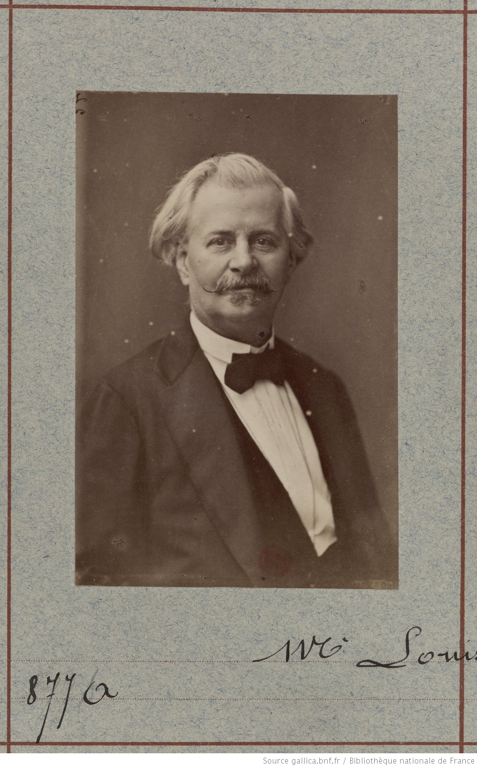 Louis Leroy by Nadar